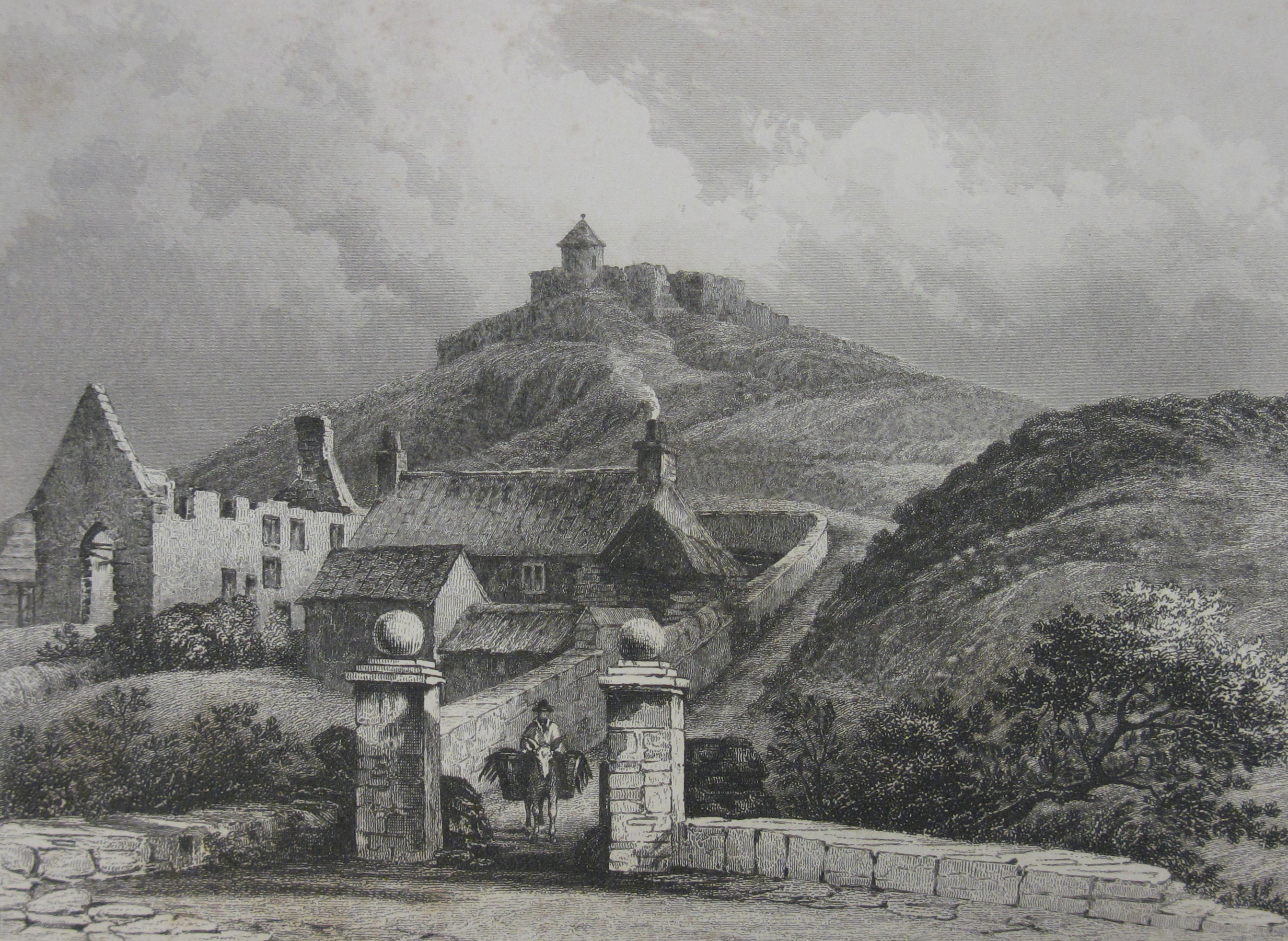 Illustration from Historical and Topographical Description of the Channel Islands (1840) by Robert Mudie - "Ruins of Essex Castle, Alderney"